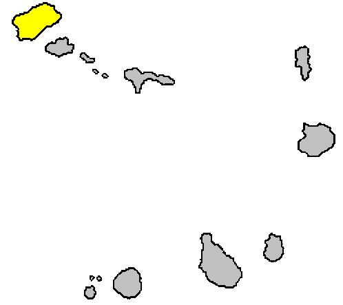 Map of SantoAntao/Cape Verdian Island